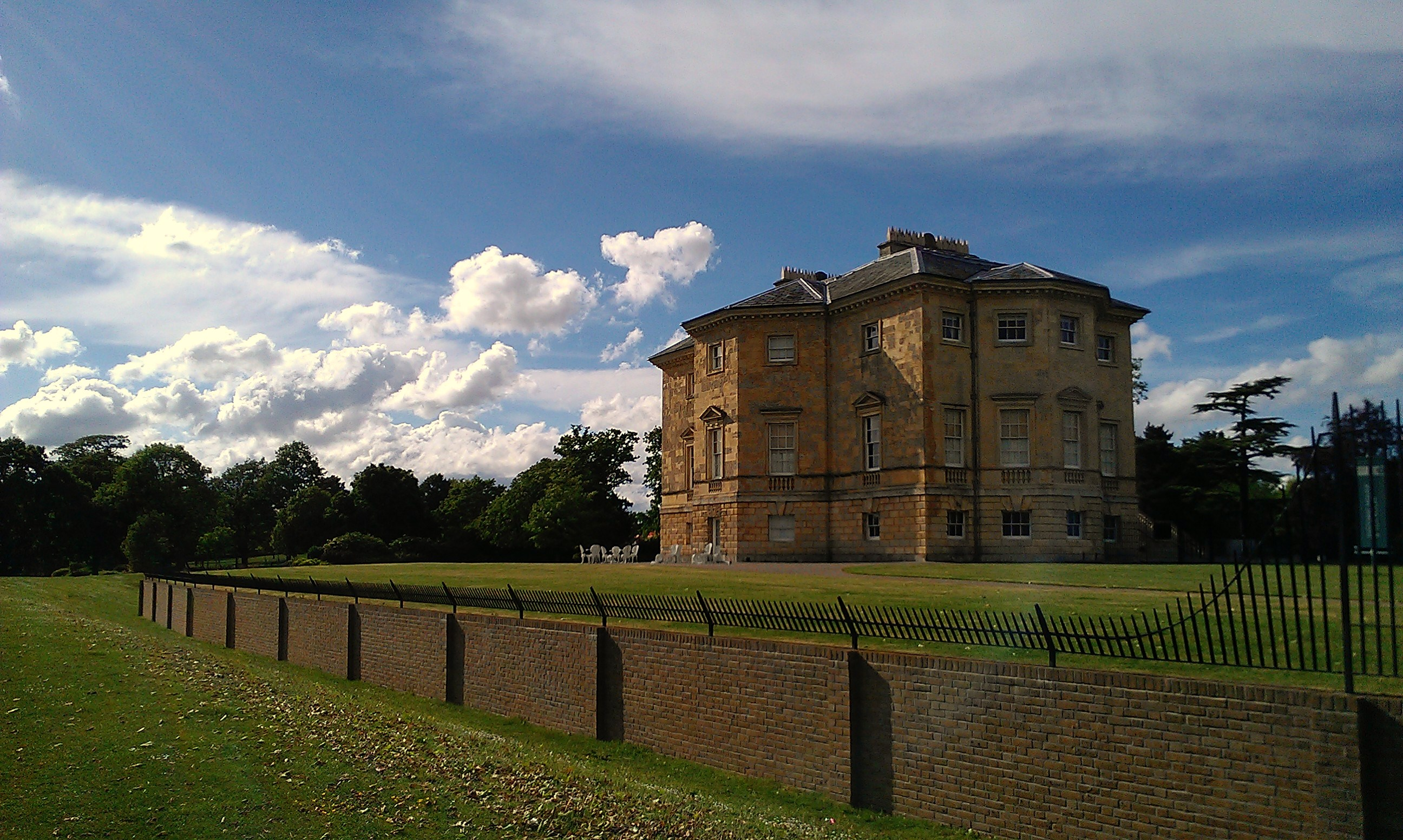 The back of 18th century building Danson House in Bexleyheath, Greater London.